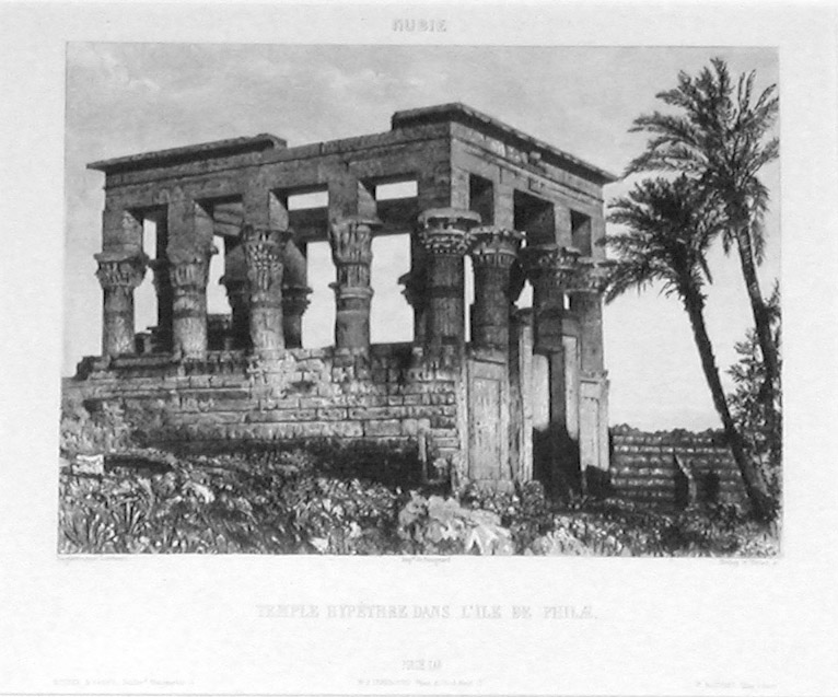 Engraving of one of the first photographs of the Kiosk of Trajan. Photograph taken by Gaspard-Pierre-Gustave Joly de Lotbinière in December, 1839. Engraved by Bishop and by Antoine Jean Weber. Published in Excursions daguerriennes by Noël Paymal Lerebours in 1841.